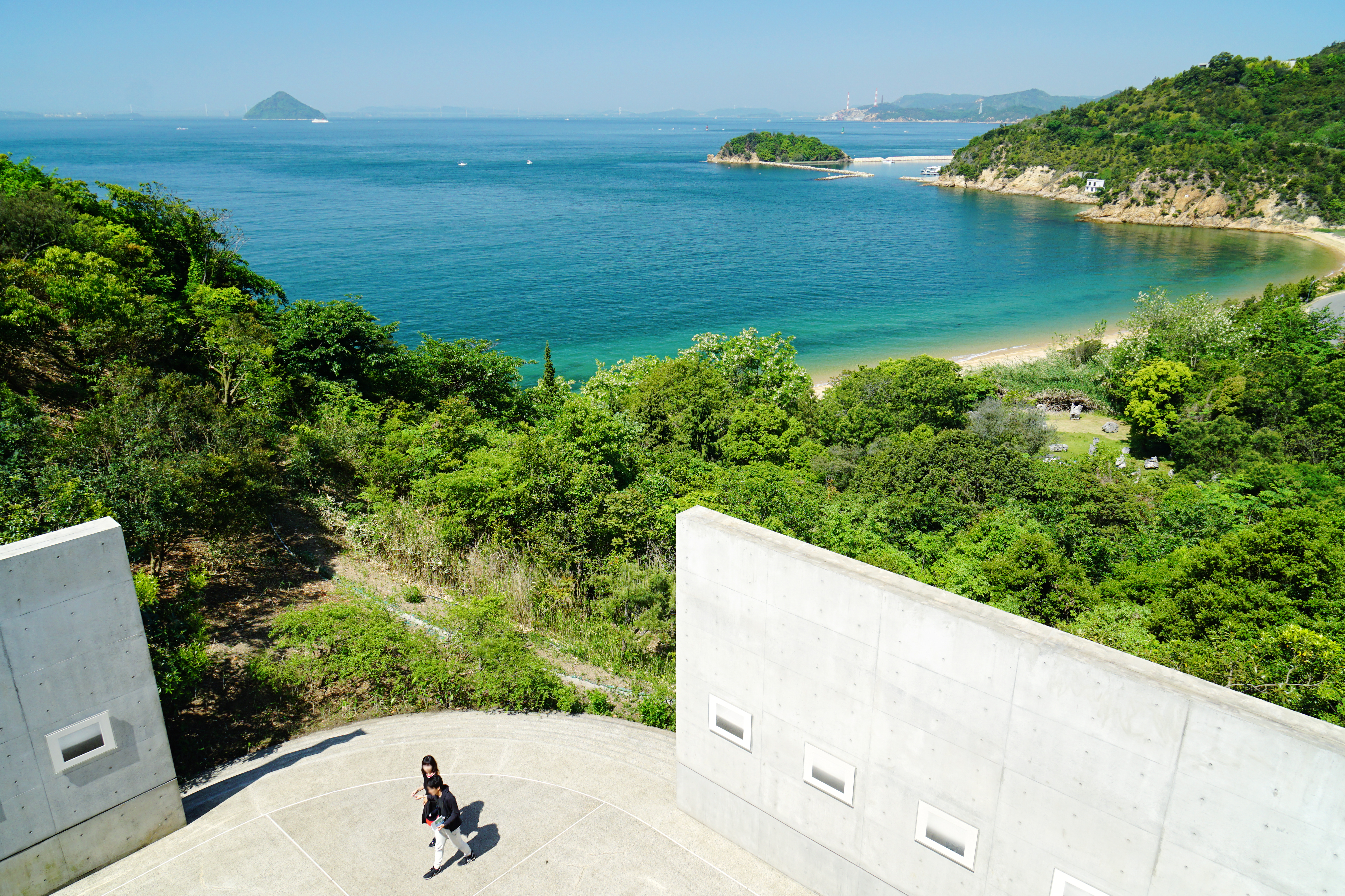 Benesse House "Museum" of Benesse Art Site Naoshima in Naoshima, Kagawa prefecture, Japan